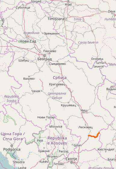 OpenStreetMap of State Road 40 in Serbia.